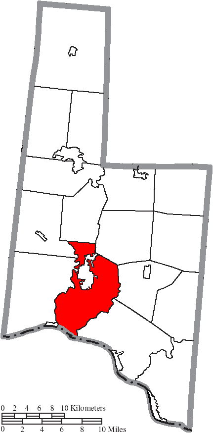 Map of the municipal and township boundaries of Brown County, Ohio, United States, as of the 2000 census, with the location of Pleasant Township highlighted. Township borders are shown only in unincorporated areas in order to differentiate incorporated and unincorporated areas more clearly.